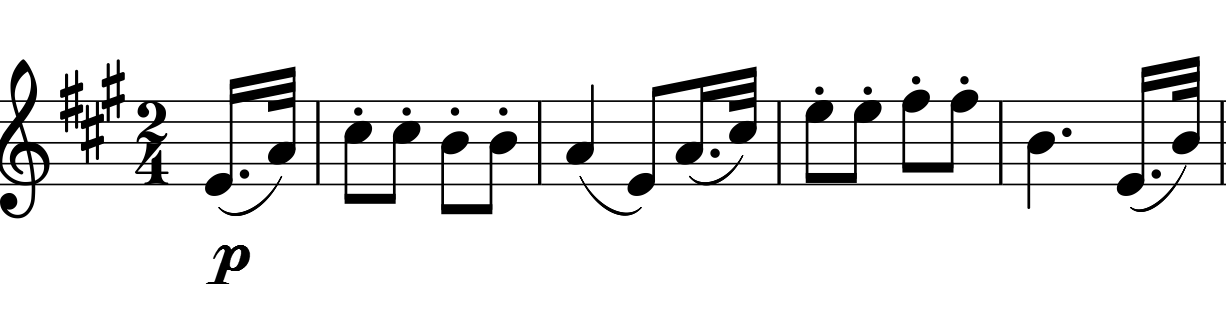 Joseph Haydn, Symphony No. 53, second movement, first violin, bar 1-4